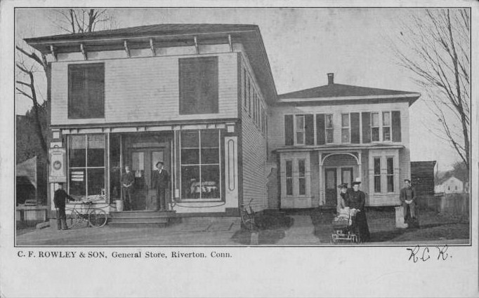 Postcard picture of C.F. Rowley & Son general store in the Riverton section of Barkhamstead, Connecticut